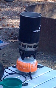 A photo of a JetBoil camping stove atop a small gas cylinder on a campsite table.